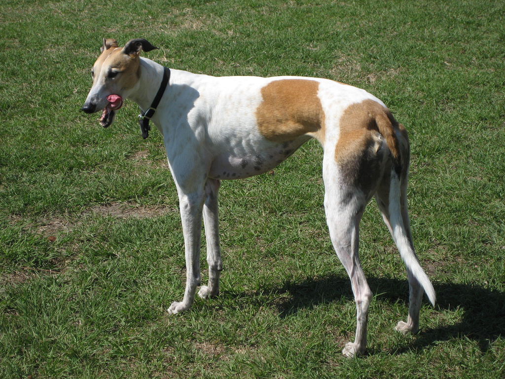 This is a photograph of a 4 year old, female greyhound named Grace.